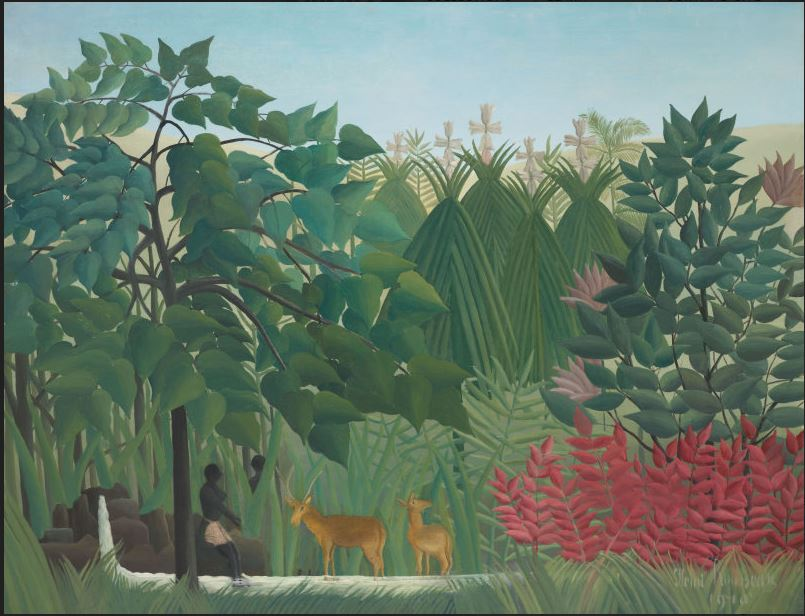 Oil on canvas